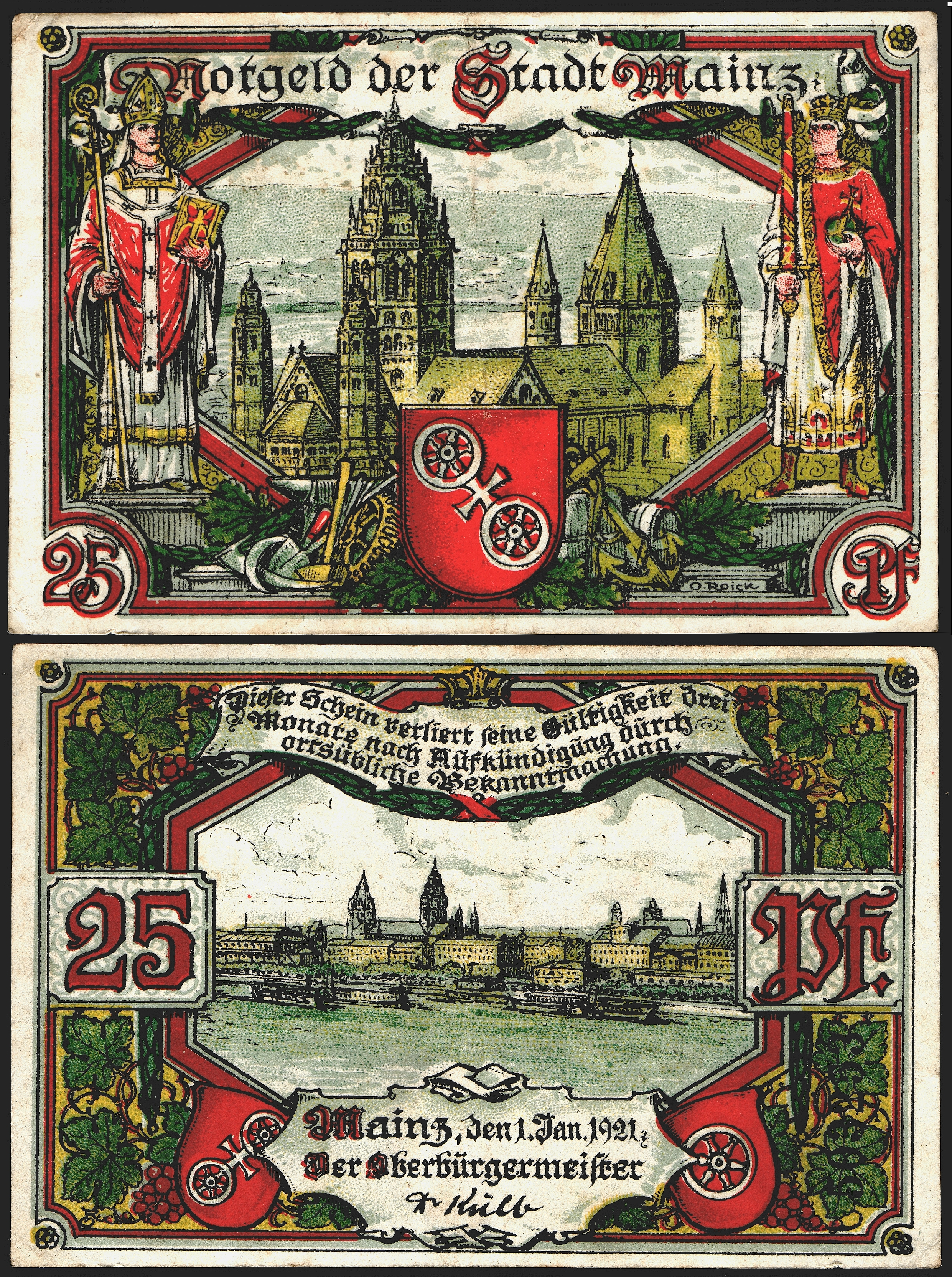 25 Pfennig Notgeld (emergency money) banknote, Stadt Mainz, 1921, AV: Mainz Cathedral, RV: view from the river Rhine, size: 103 mm x 70 mm.